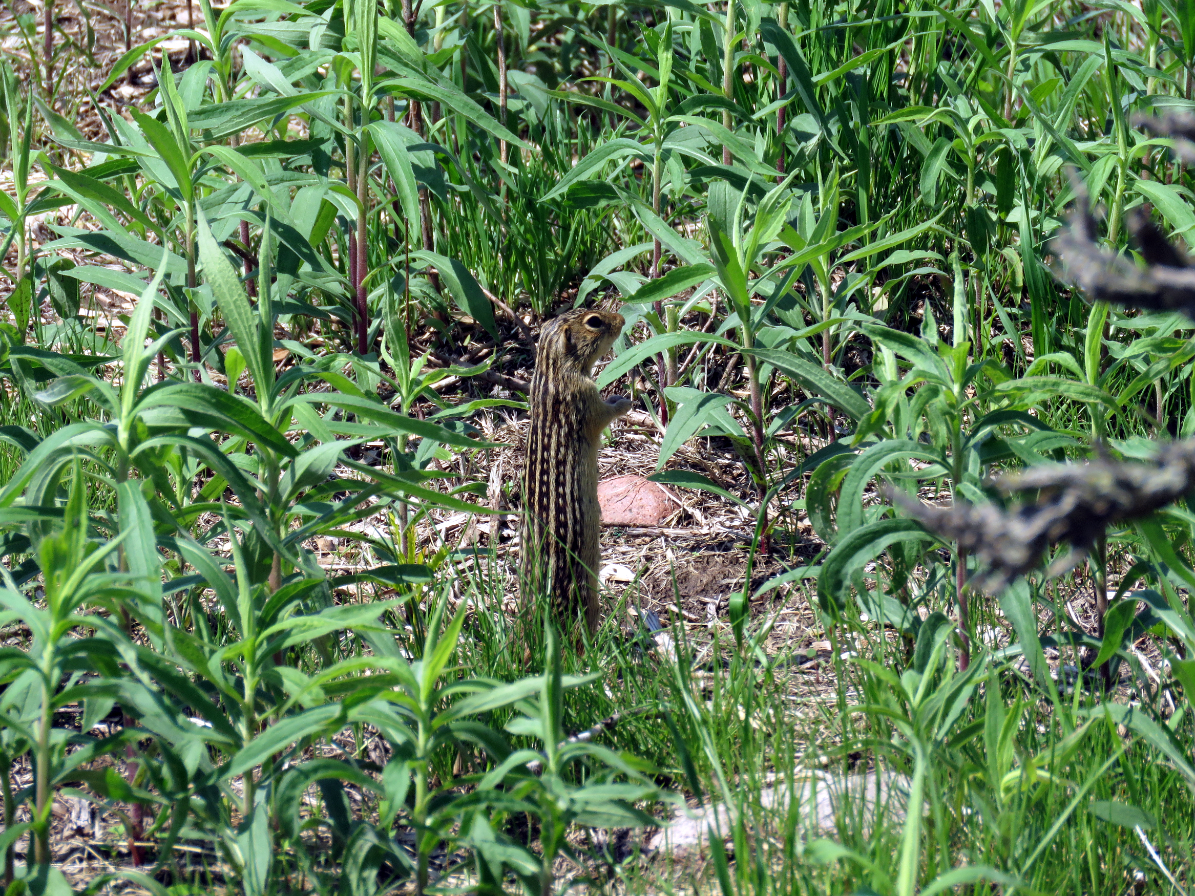 A striped gopher (Ictidomys tridecemlineatus) photographed spring 2017, somewhat camouflaged in typical habitat. Minnesota, USA.